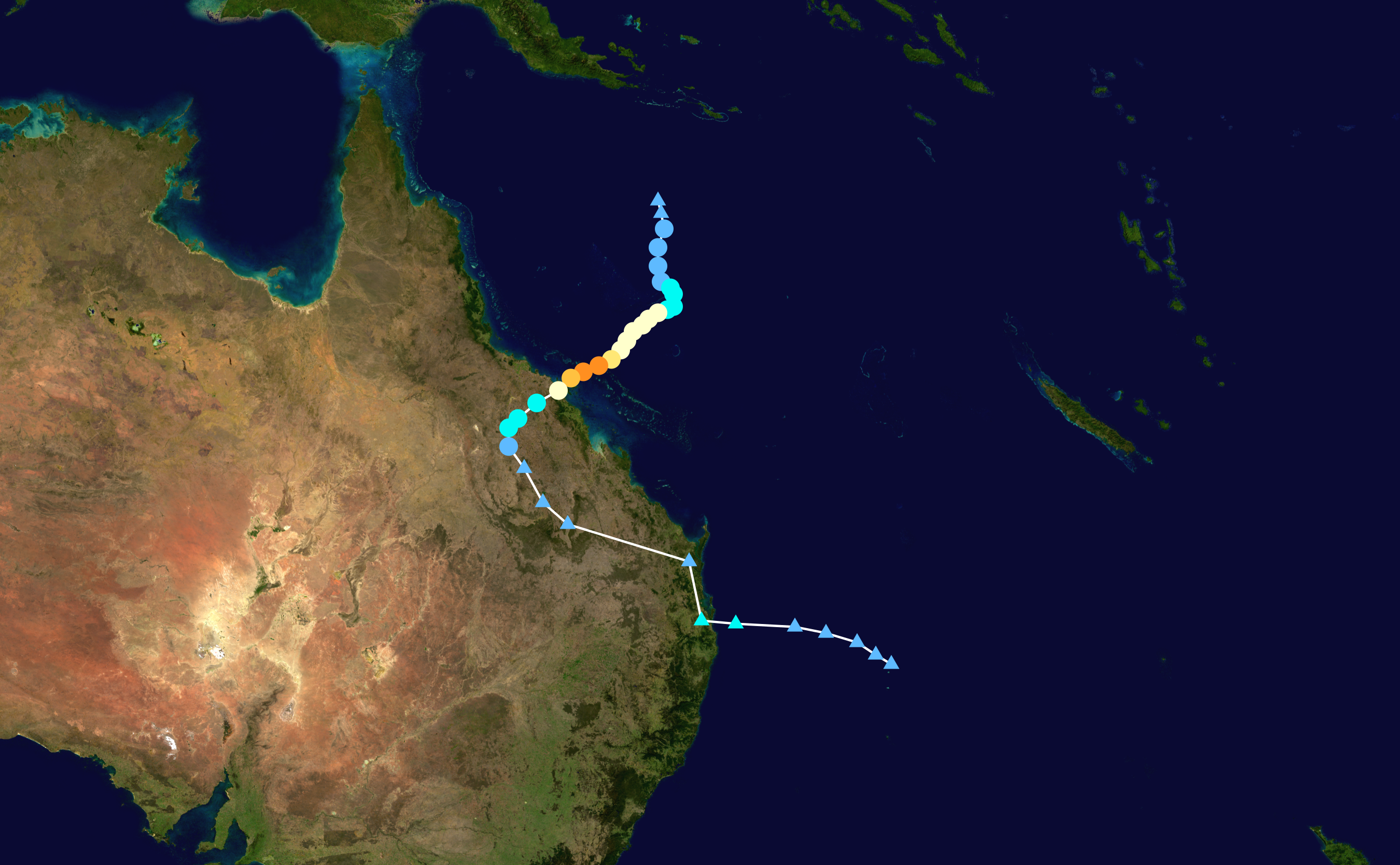 Track map of Severe Tropical Cyclone Debbie of the 2016-17 Australian region cyclone season. The points show the location of the storm at 6-hour intervals. The colour represents the storm's maximum sustained wind speeds as classified in the Saffir–Simpson scale (see below), and the shape of the data points represent the nature of the storm, according to the legend below. Saffir–Simpson scale Tropical depression≤38 mph≤62 km/h Category 3111–129 mph178–208 km/h Tropical storm39–73 mph63–118 km/h Category 4130–156 mph209–251 km/h Category 174–95 mph119–153 km/h Category 5≥157 mph≥252 km/h Category 296–110 mph154–177 km/h Unknown Storm type Tropical cyclone Subtropical cyclone Extratropical cyclone / Remnant low / Tropical disturbance / Monsoon depression